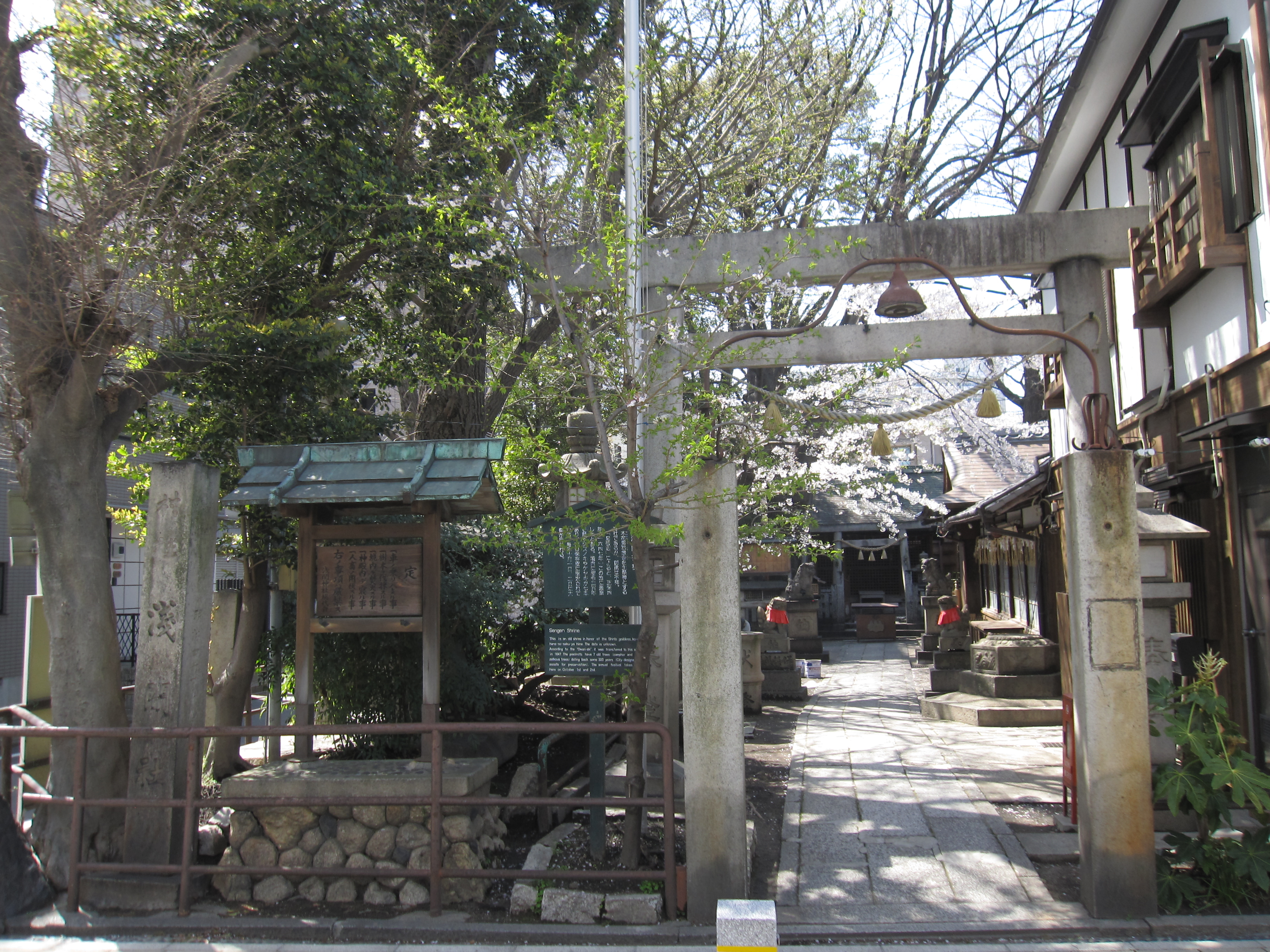 Fuji Sengen Shrine at Shikemichi (四間道), a small historical street in Nishi-ku, Nagoya in central Japan.